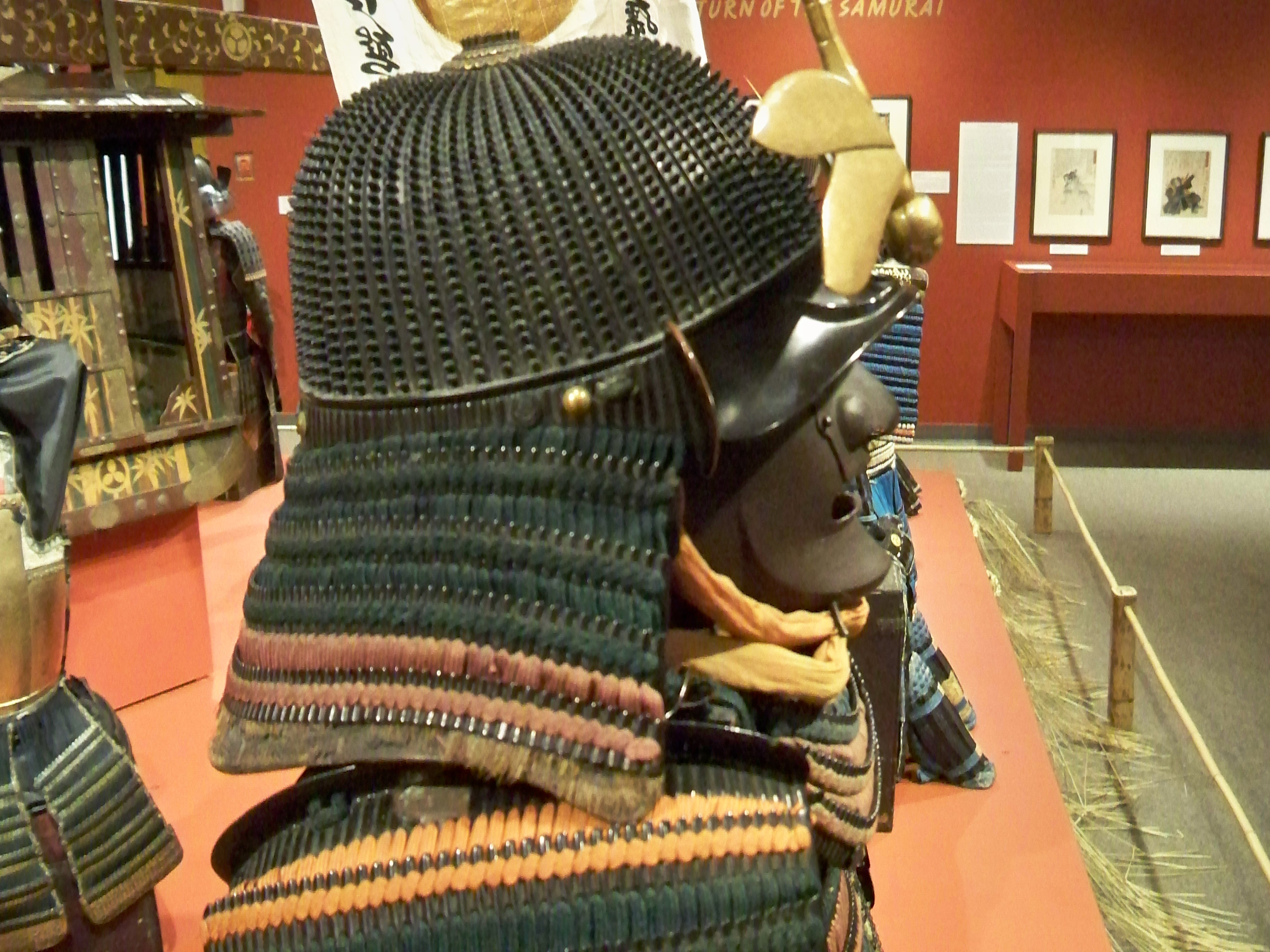 Photograph from the Return of the Samurai, an exhibit of Samurai art and artifacts held in the Art Gallery of Greater Victoria, Victoria B.C. Canada, August 6 through November 14 2010. Sponsered by Barry Till, internationally recognized Curator of Asian Arts at the AGGV, author, and art historian and by Trevor Absolon, major contributor, author, consultant, Samurai collector and specialist.